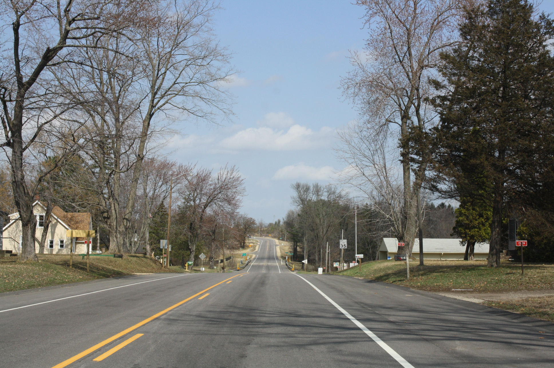 Looking north in Arkdale, Wisconsin along Wisconsin Highway 21.